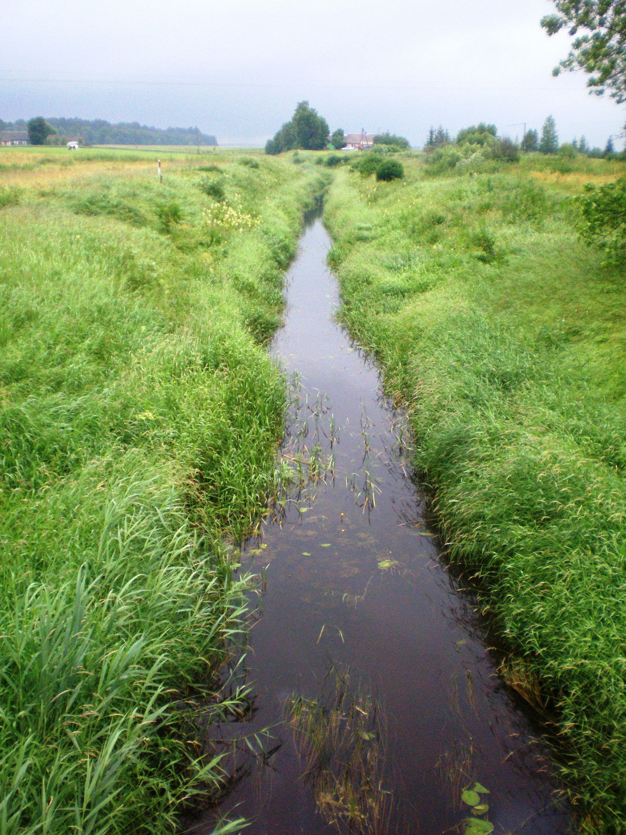 Armona River near Deltuva, Lithuania